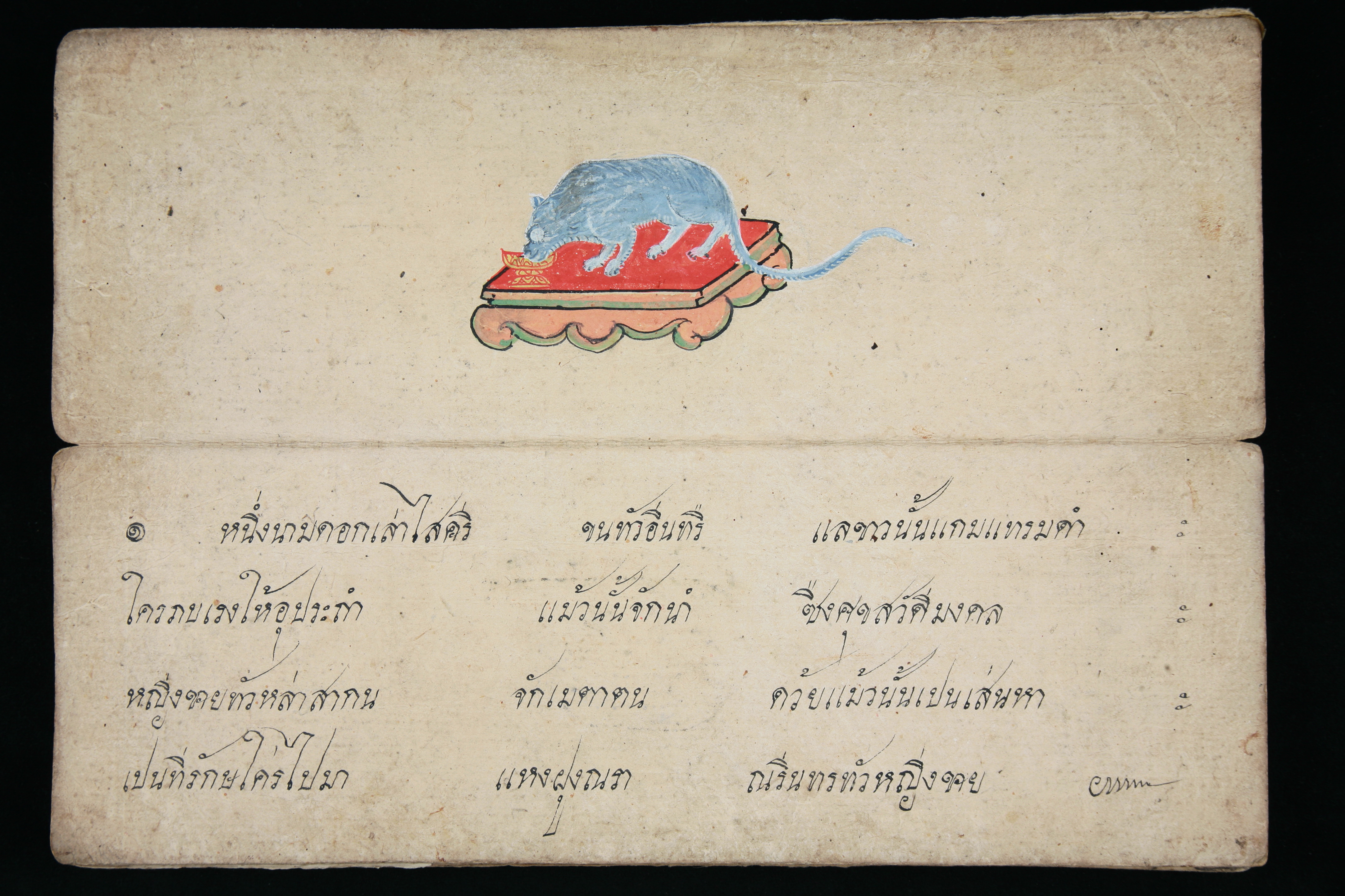 Samsawet cat in Ayutthaya